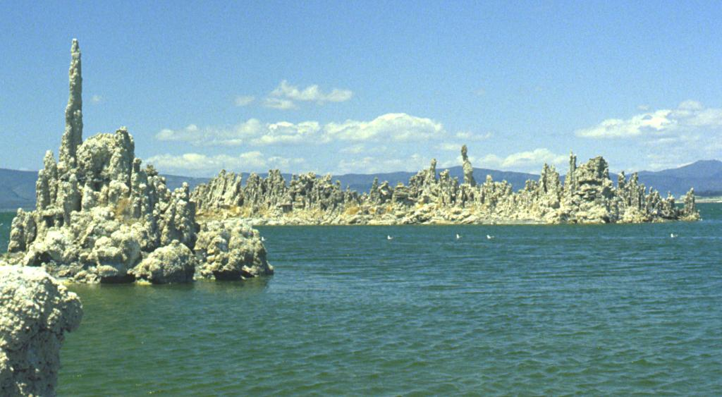 South Tufa columns in Mono Lake, Mono County, Eastern Sierra region, California